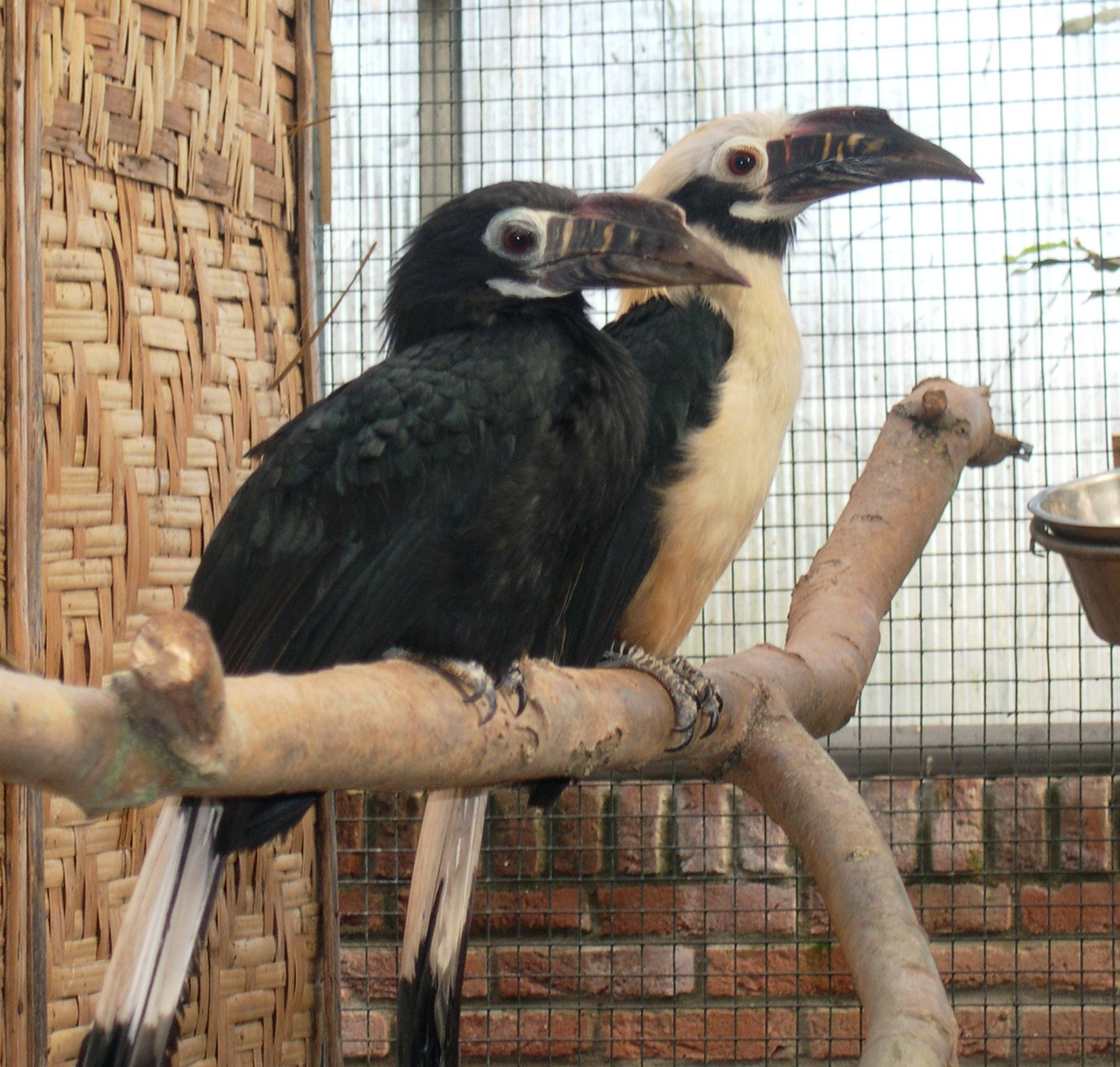 A male and female Tarictic Hornbill (Penelopides panini) in Avifauna in Alphen aan de Rijn, The Netherlands